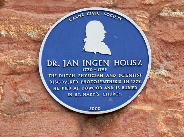 Blue plaque, Church Street, Calne The plaque commemorates a Dutchman whose connection with the Wiltshire town is that he is buried nearby.